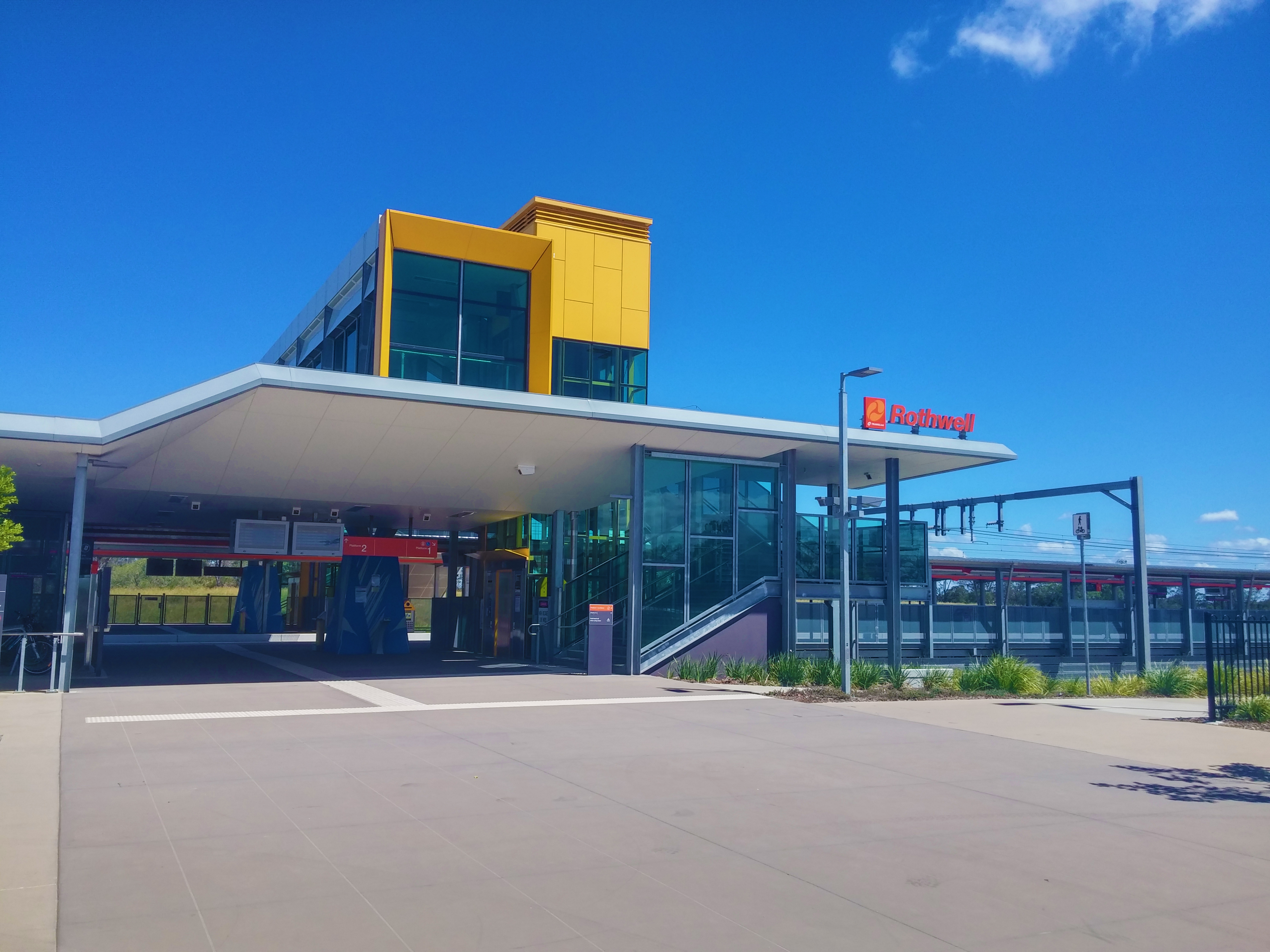 Rothwell railway station on the Moreton Bay line in Brisbane.